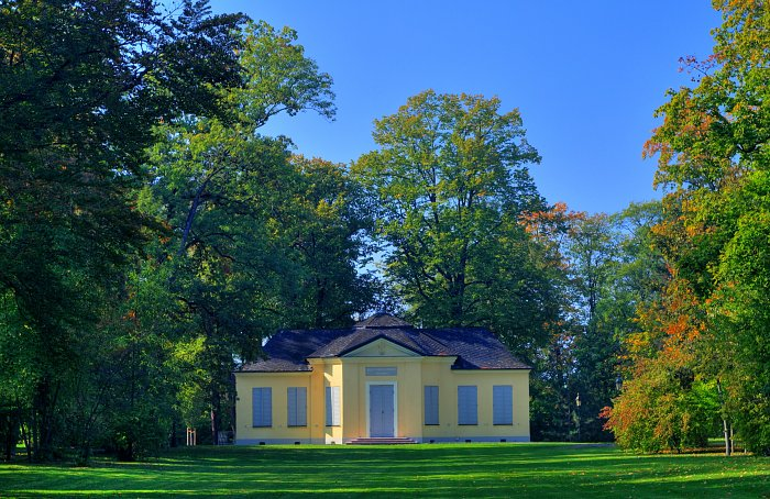 Schloßpavillon in Ismaning